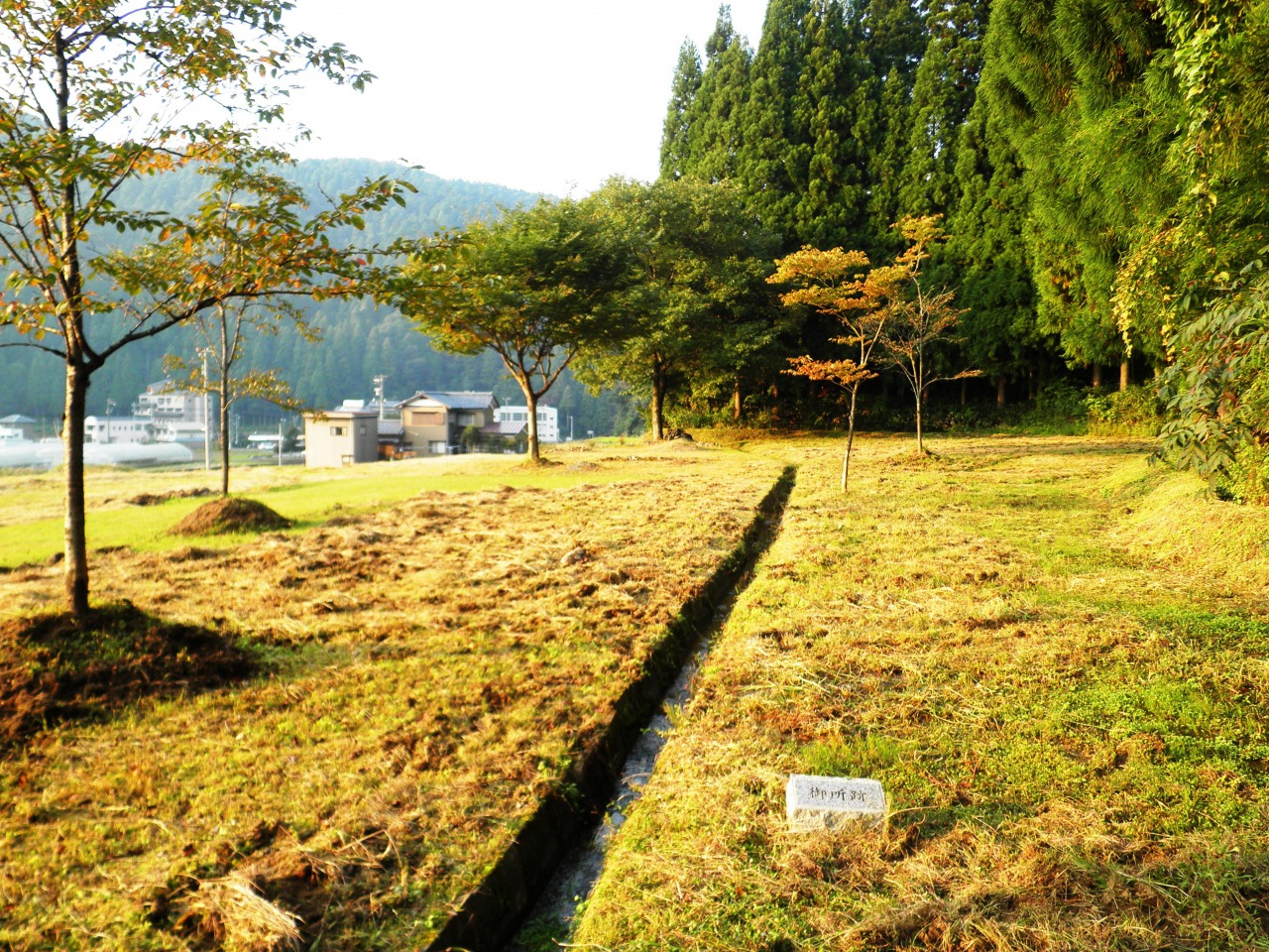 Ashikaga Yoshiaki's Gosho in Ichijōdani Asakura Family Historic Ruins located in Fukui,Fukui.